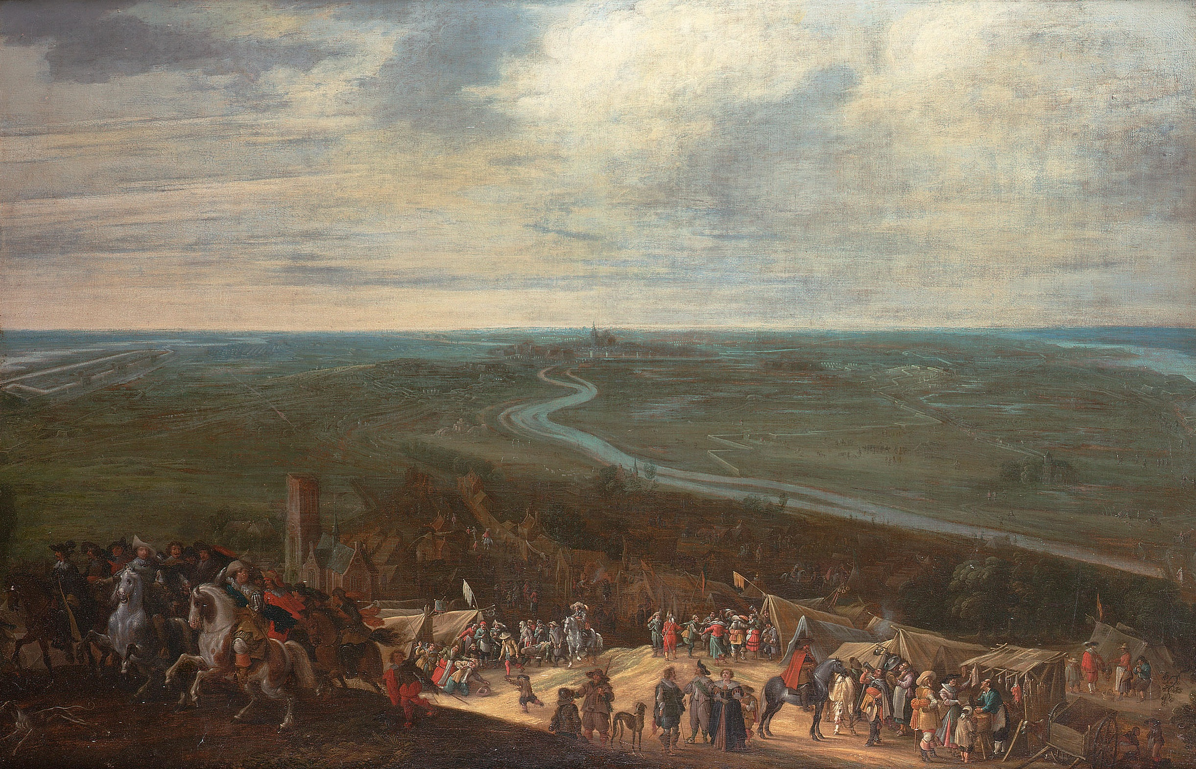 Prince Frederick Henry, Prince of Orange and Count of Nassau at the Siege of s'-Hertogenbosch, 1629